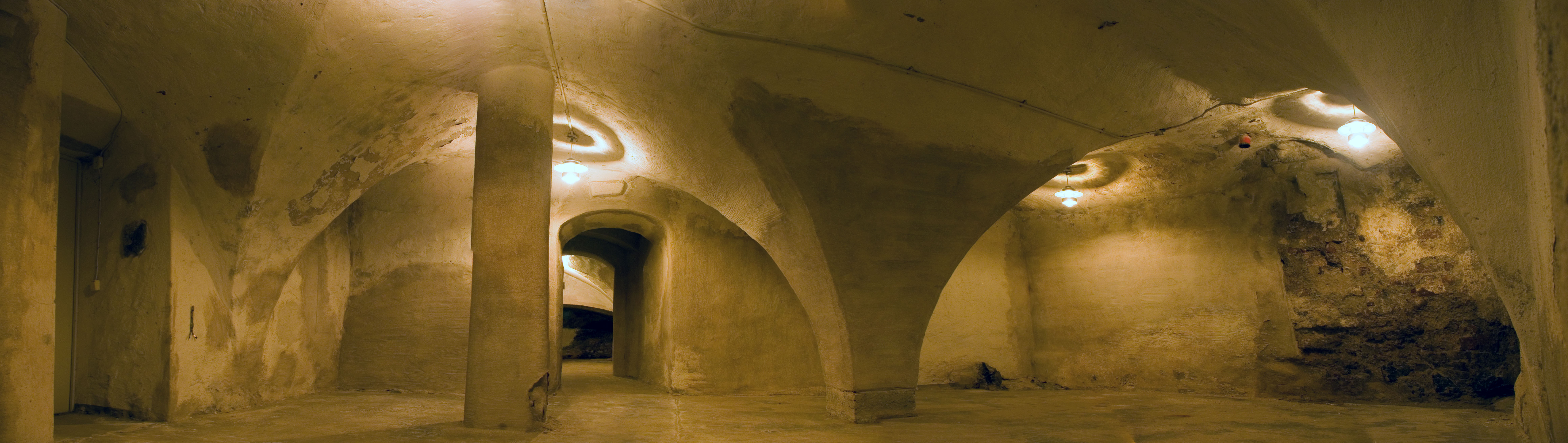 Sweden, Stockholm, Riddarholmen, Medieval basement rooms in the Old Parliamentary house.